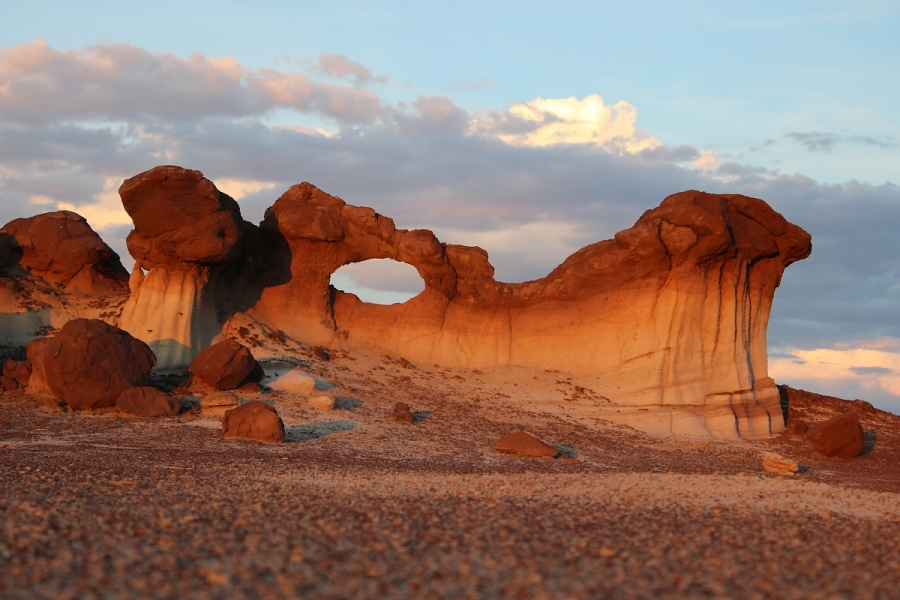 Evening view of Bisti Wilderness Bisti Arch (aka Dragon's Head)